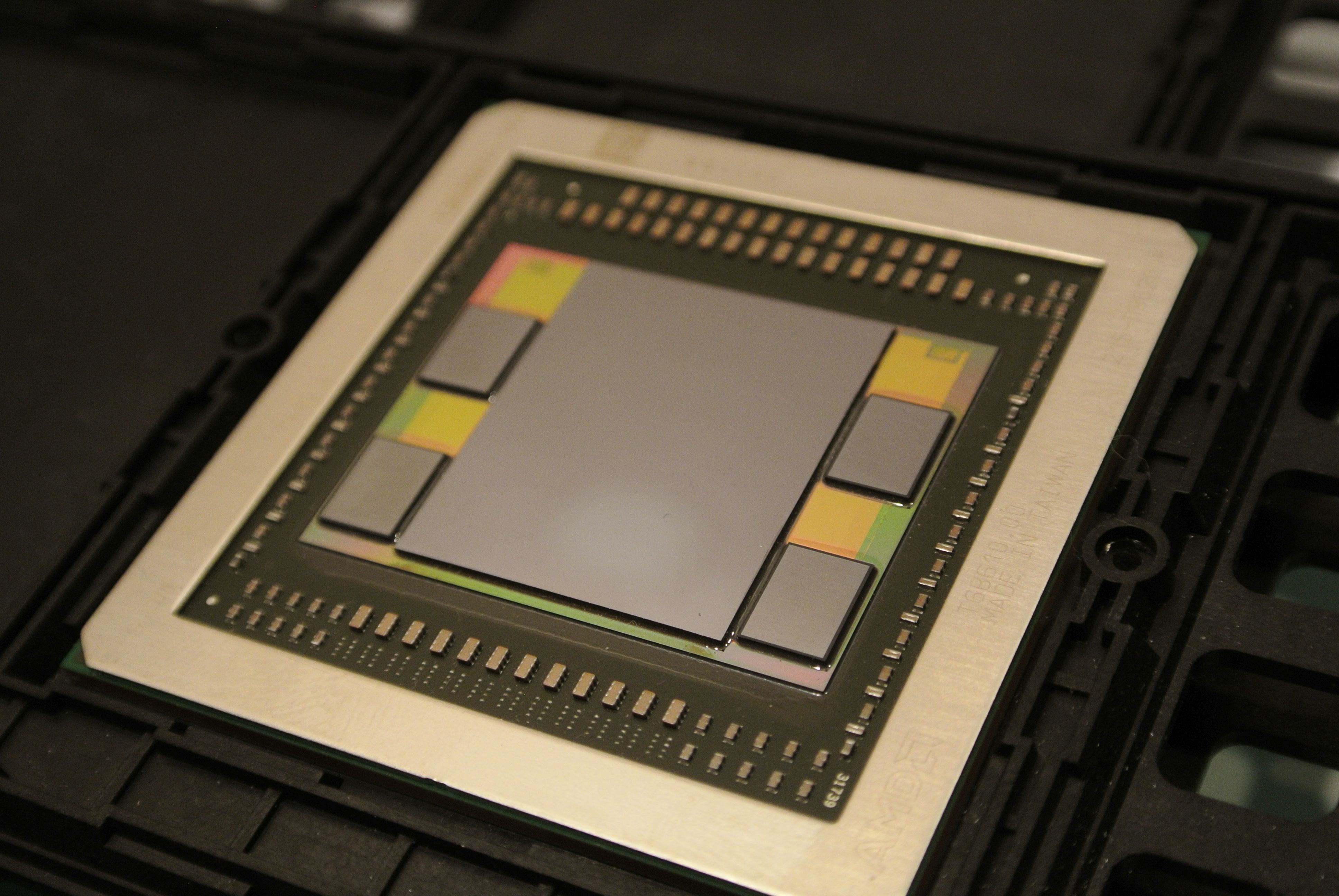 Photo of the AMD Fiji GPU package which includes the Fiji GPU, HBM memory, interposer, substrate and the rest of the package. This is GPU that powers the AMD Radeon R9 Fury X, AMD Radeon R9 Fury, AMD Radeon Nano, AMD Project Quantum and a future dual-GPU graphics card.